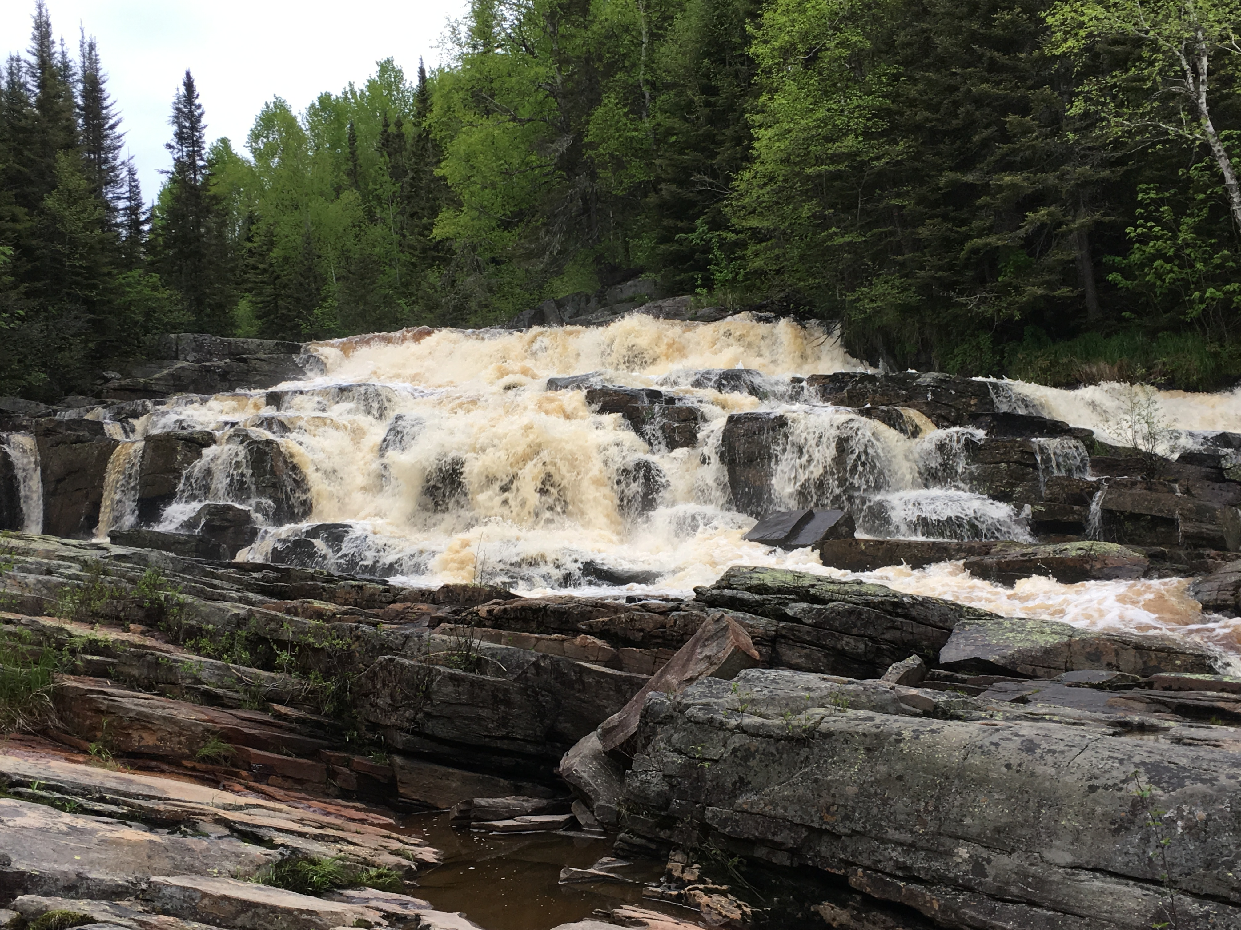 Vue amont de la chute de la rivière Amédée, au Parc du Vieux-Poste du Baie-Comeau